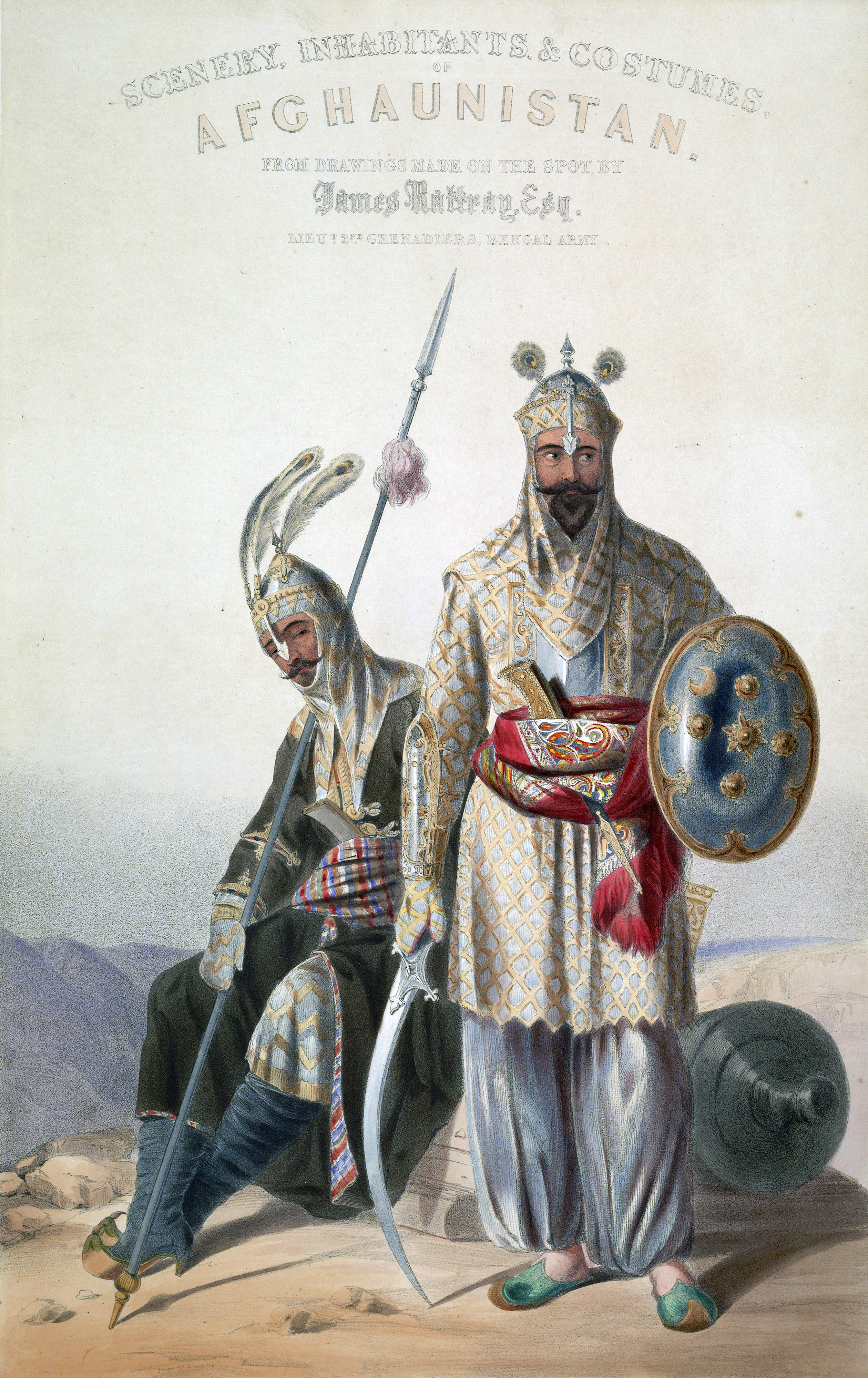 Dourraunnee chieftains in full armour This lithograph was taken from the frontispiece of 'Afghaunistan' by Lieutenant James Rattray. Two Afghan nobles of the Durrani tribe are depicted, fully armed, with their helmets decorated with peacock feathers. Rattray wrote: "This costume of the Douranee warriors gives a fair idea of the style of armour worn by the Afghaun noblesse, though it was not a common occurrence to meet with them so completely clothed in clinquant mail as they are represented in the frontispiece." Peacock feathers were a symbol of royalty. Egret plumes were specially presented by the Emir as a mark of honour to the chiefs who merited the distinction. Rattray had often been shown the shirts of mail worn by the Afghans under their silk kameezes (shirts) as a protection against assassins' daggers. Sometimes they also wore a "shawl around the steel head-piece, the nose-plate and the plume alone attracting attention to the fact of their being helmeted at all".